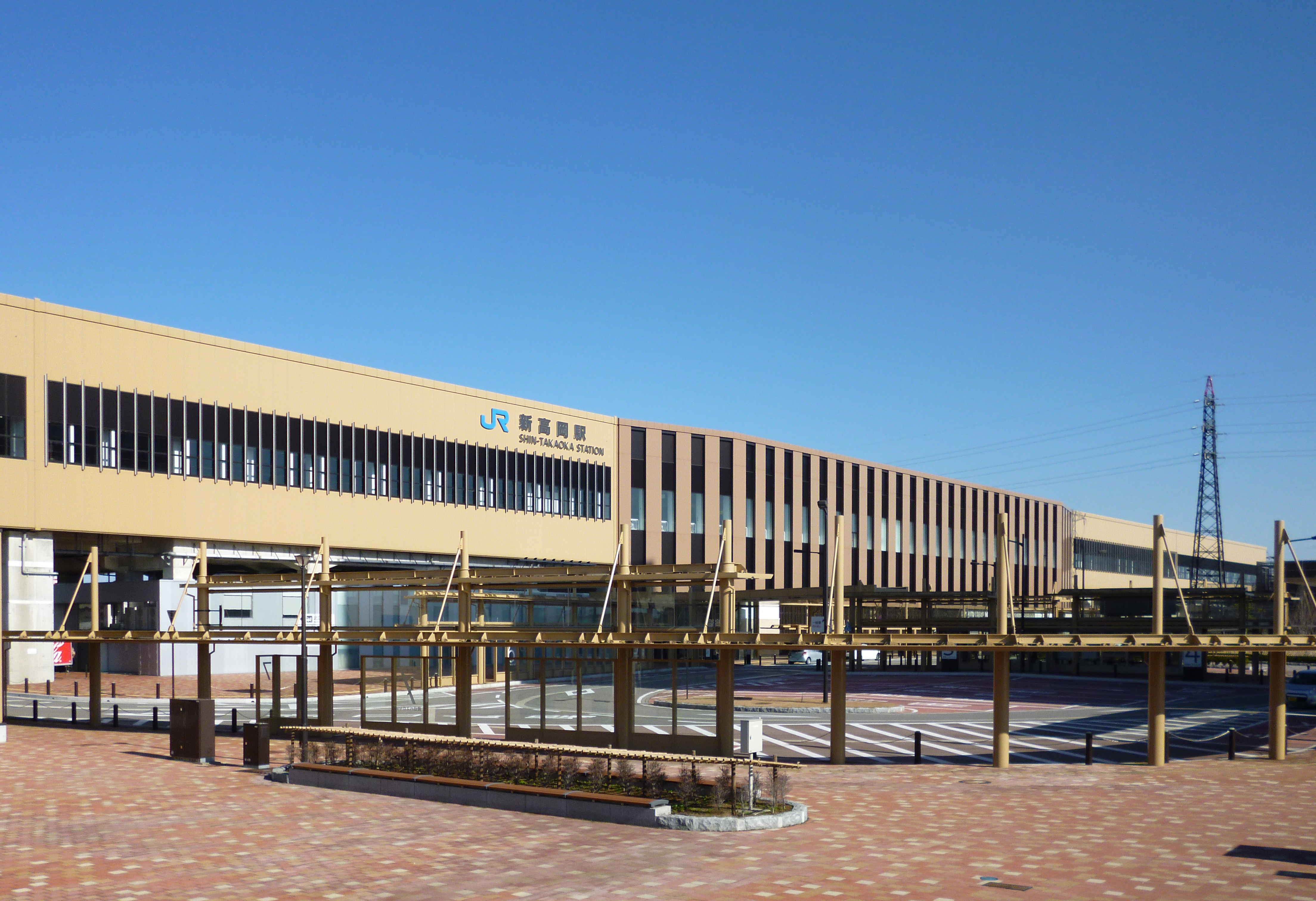 The south entrance of Shin-Takaoka Station in Takaoka, Toyama, Japan